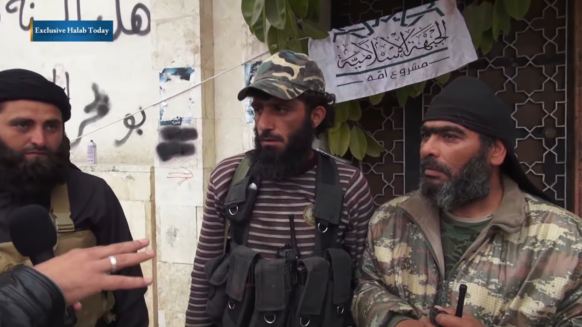 Ahrar al-Sham field commanders in the city of Idlib, northwestern Syria after they participated in the battle to capture the city.